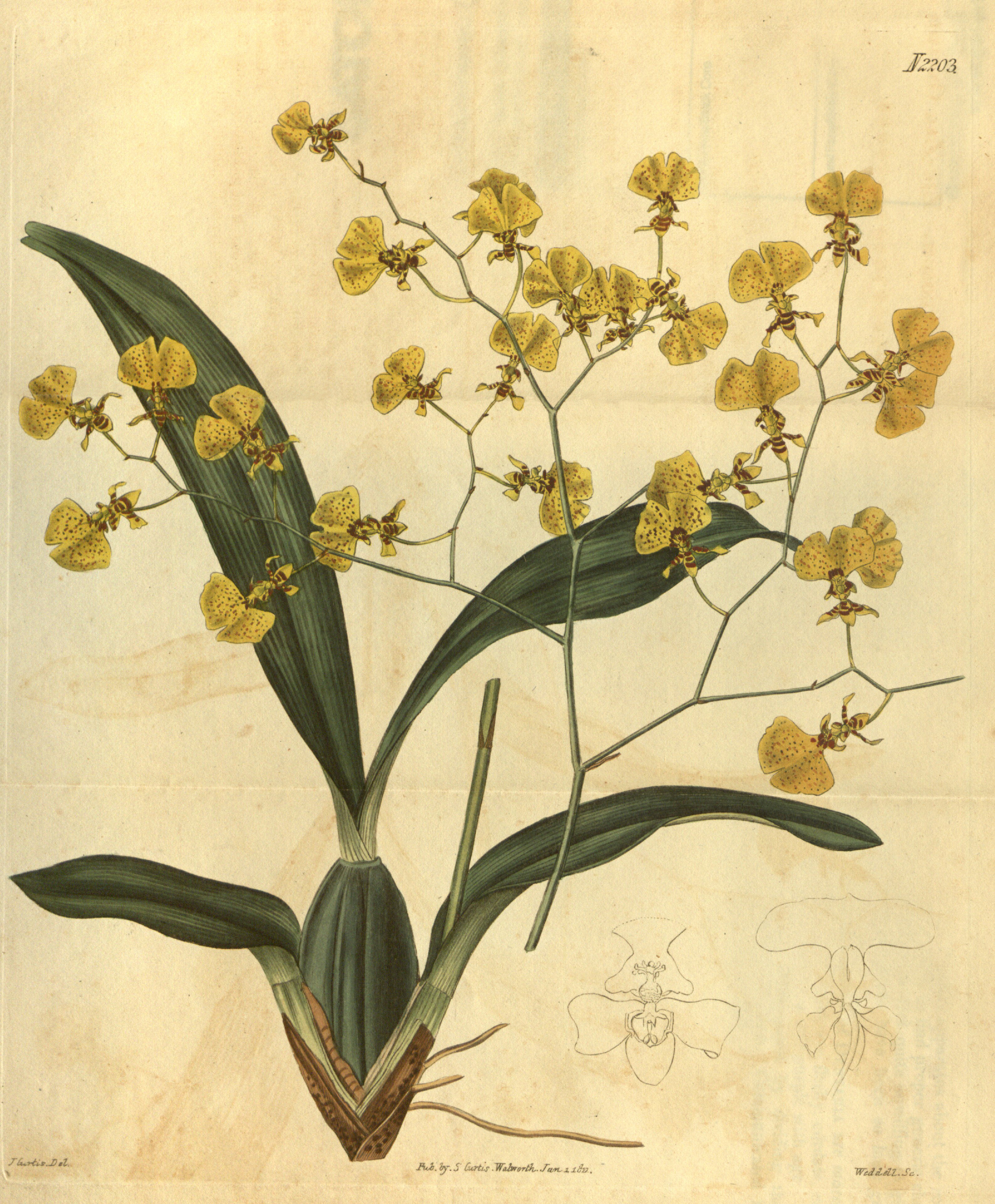 Illustration of Oncidium flexuosum